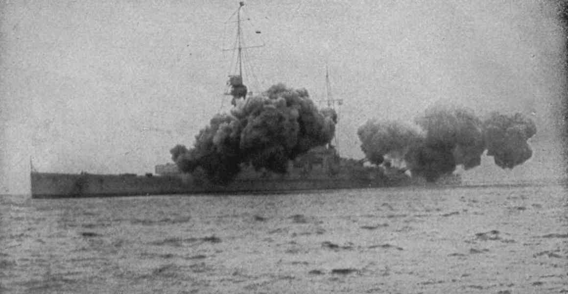 SMS Derfflinger fires all his main guns